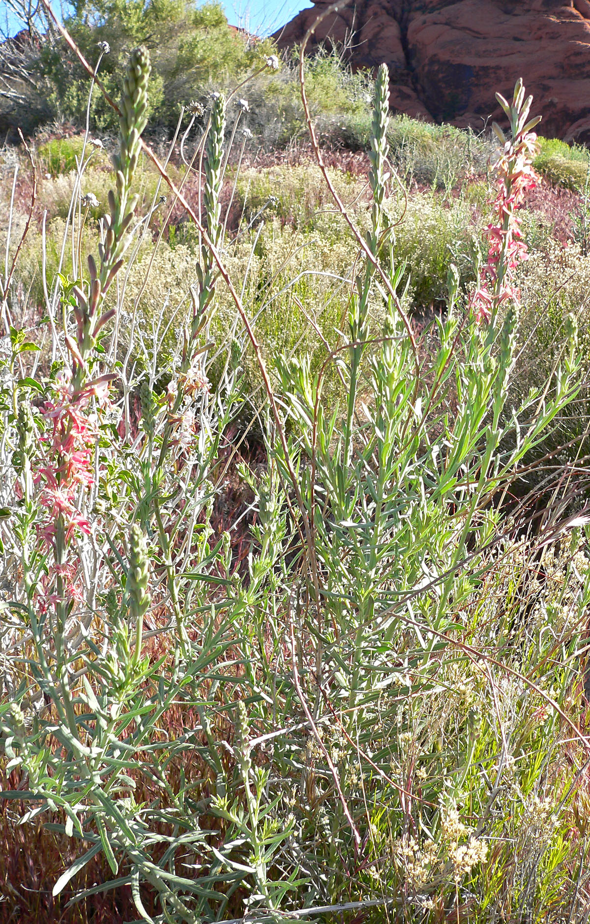 Photo of Gaura coccinea in Red Rock Canyon near Las Vegas, Nevada